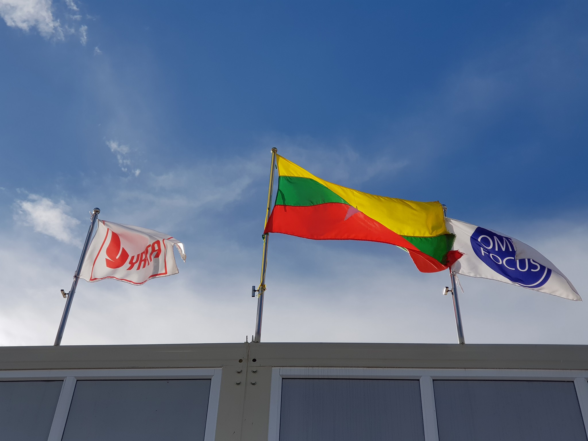 The Flag